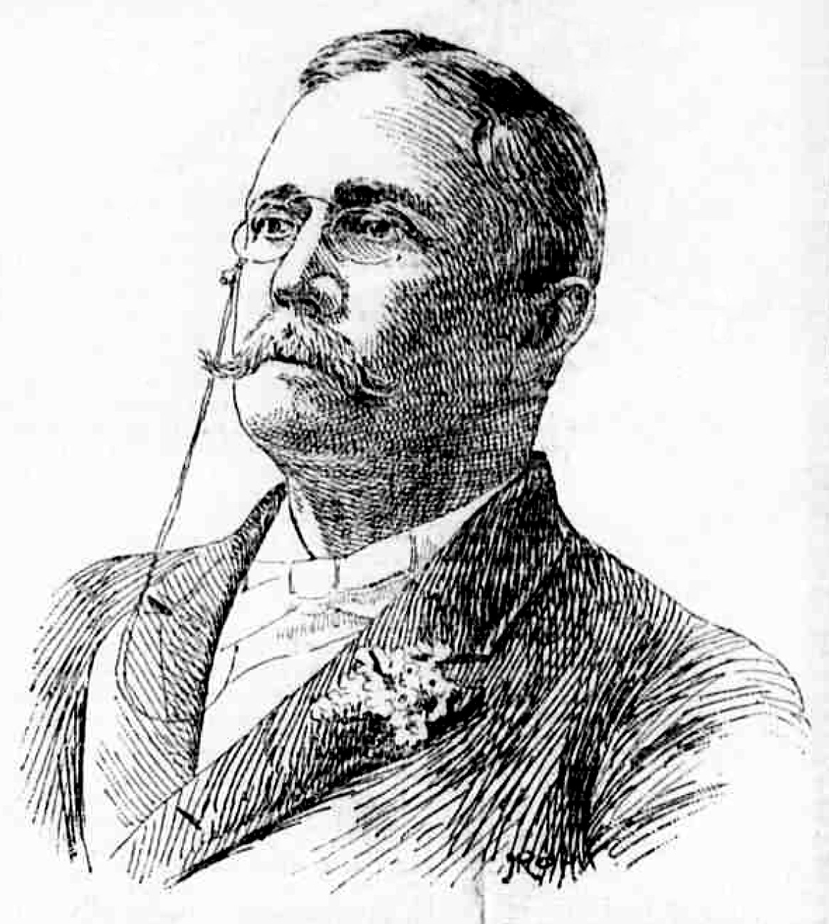 Albert Francis Judd (1838–1900) was a judge of the Kingdom of Hawaii who served as Chief Justice of the Supreme Court through its transition into part of the United States.